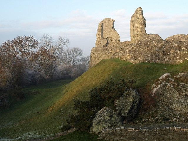 Montgomery Castle A steep bank on the western side acted as added protection. The castle is free to enter.